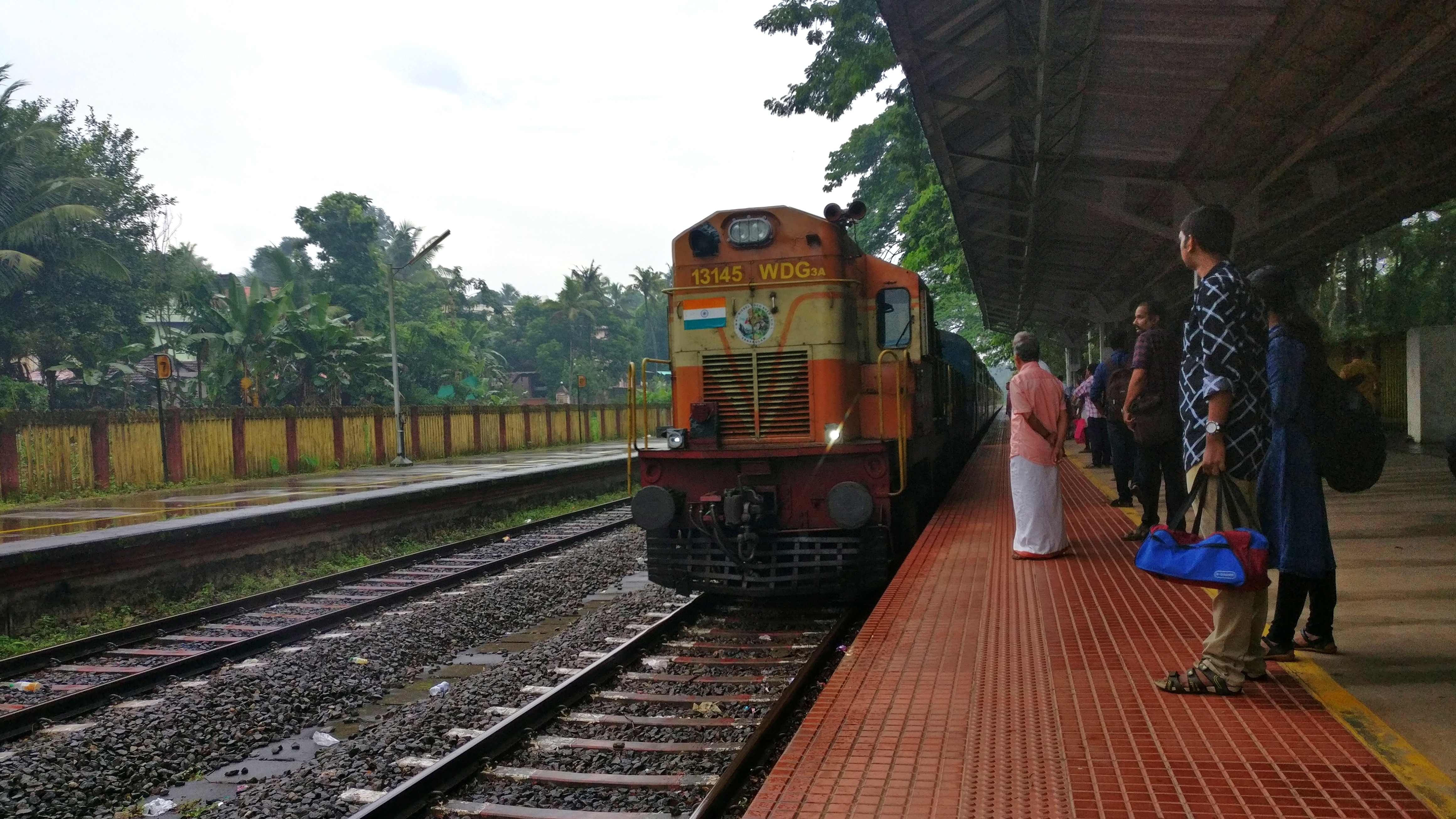 Kottarakara railway station (Code: KKZ) is a railway station in the Indian town of Kottarakkara in Kollam district, Kerala.